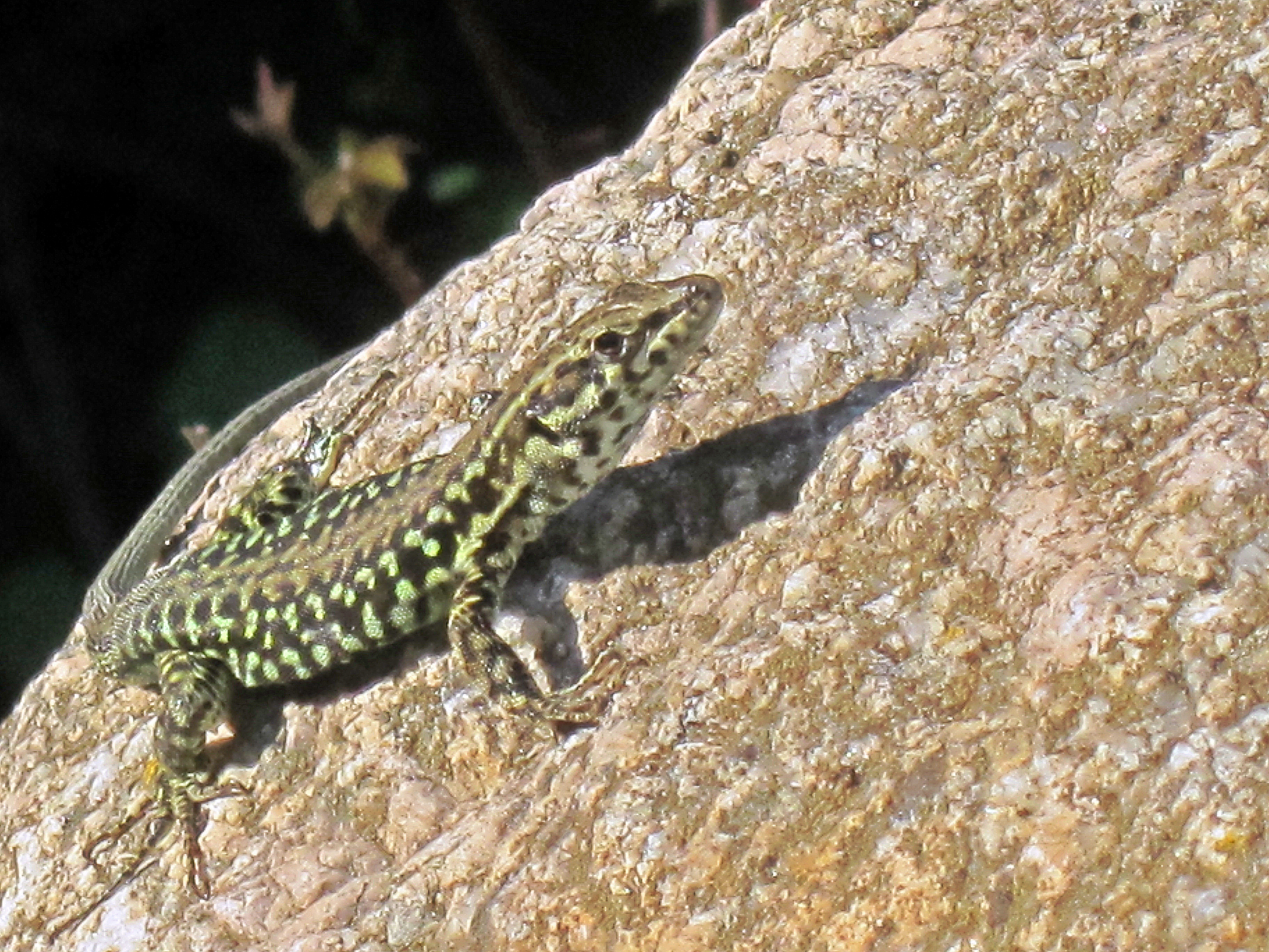 Podarcis tiliguerta, (wall lizard), Corsica France